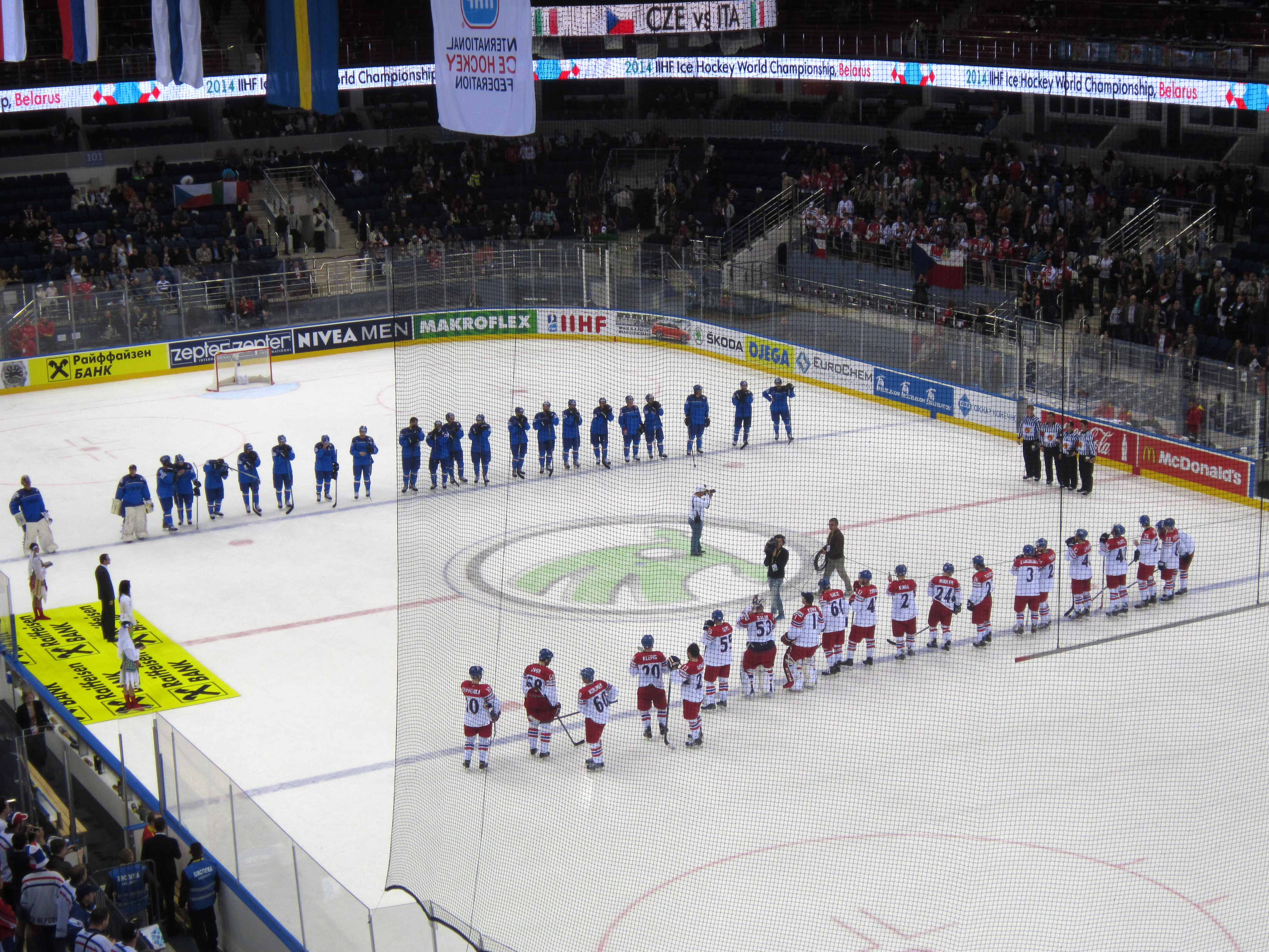 Czech Republic — Italy game during IIHF World Championship 2014 (Minsk, Belarus), 14 May 2014